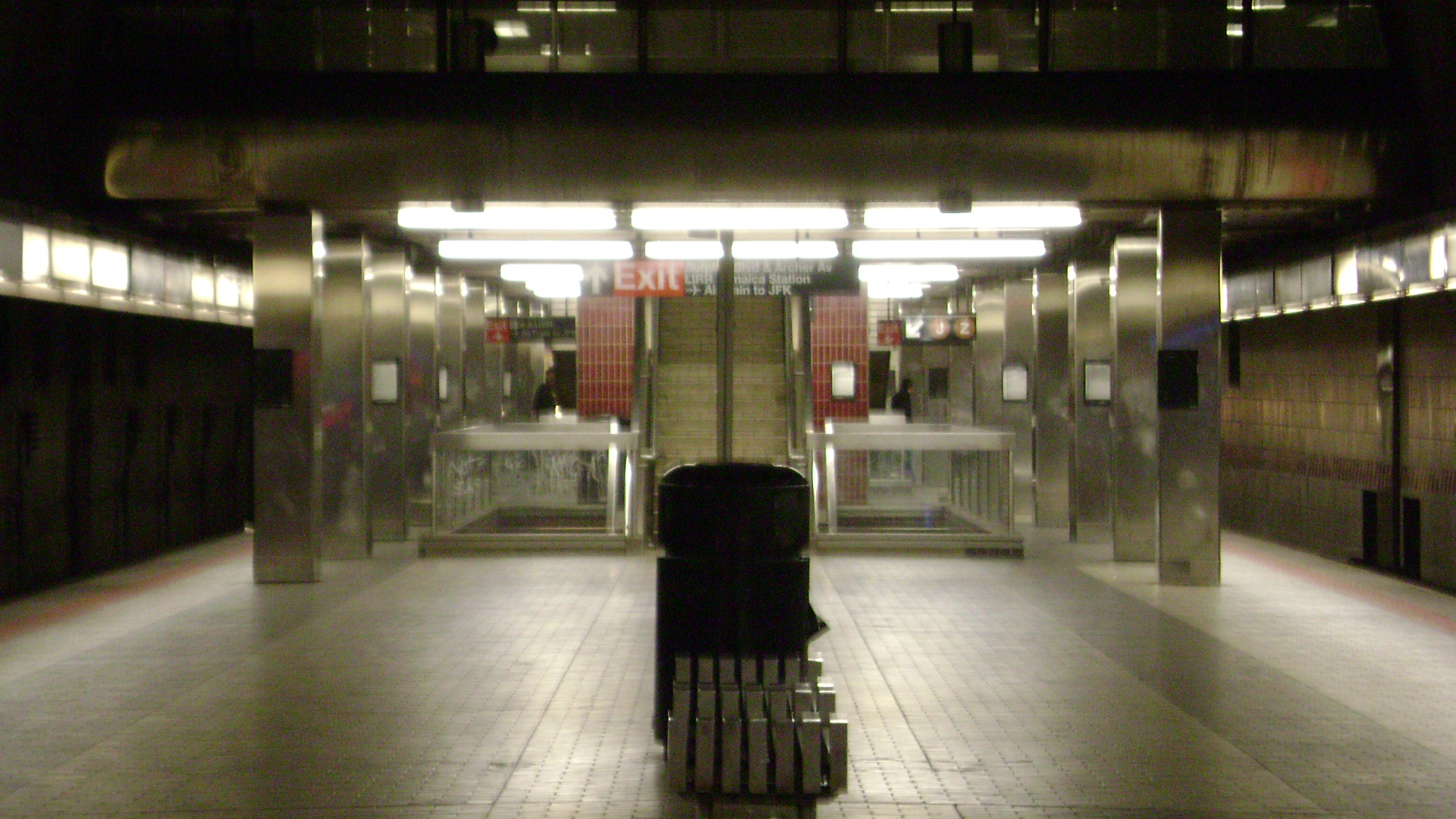 The Sutphin Boulevard-Archer Avenue subway station.